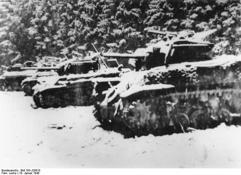 Border Belgium-Luxembourg 1945, destroyed american sherman tanks